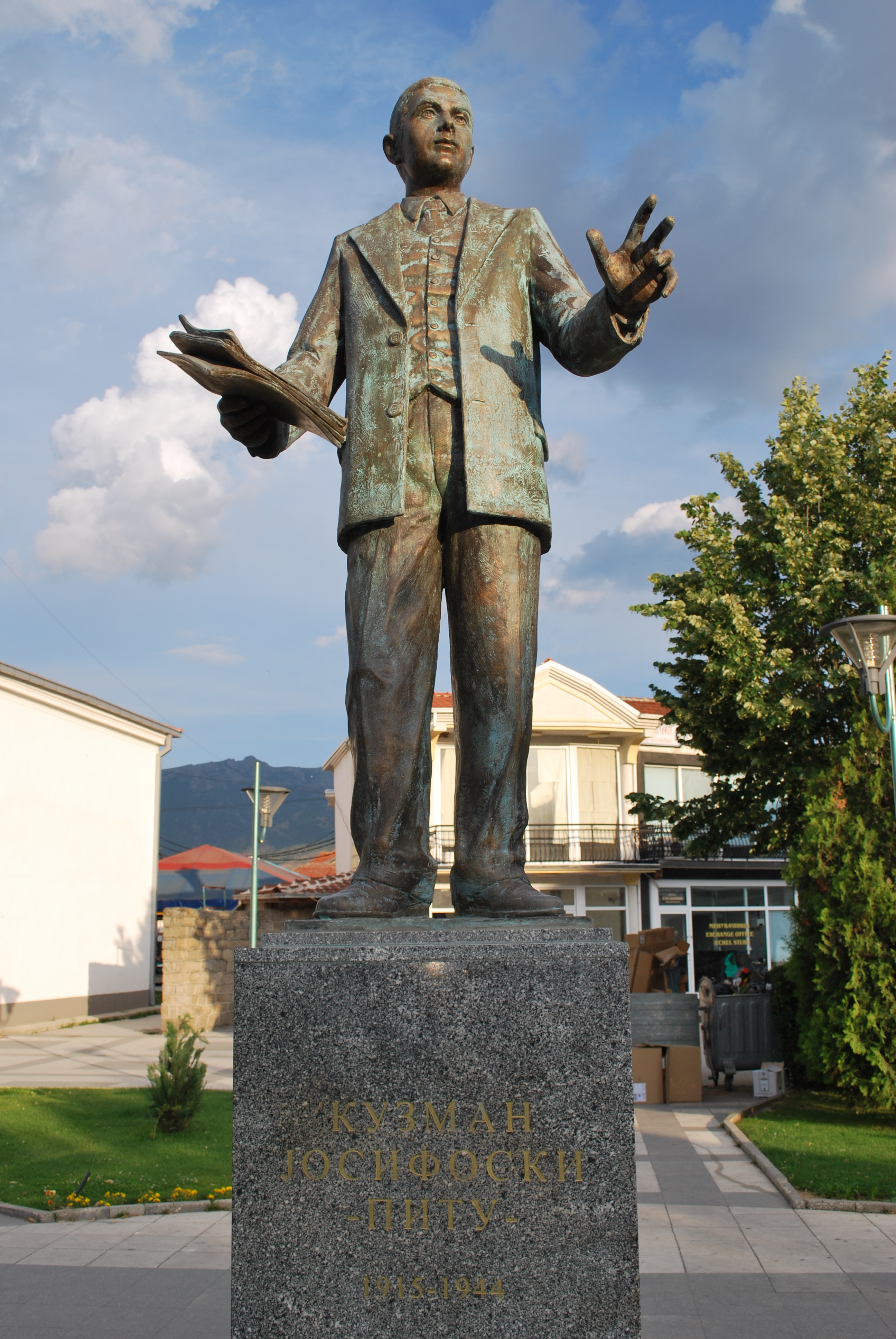 Monument of Kuzman Josifovski - Pitu in Prilep, Macedonia